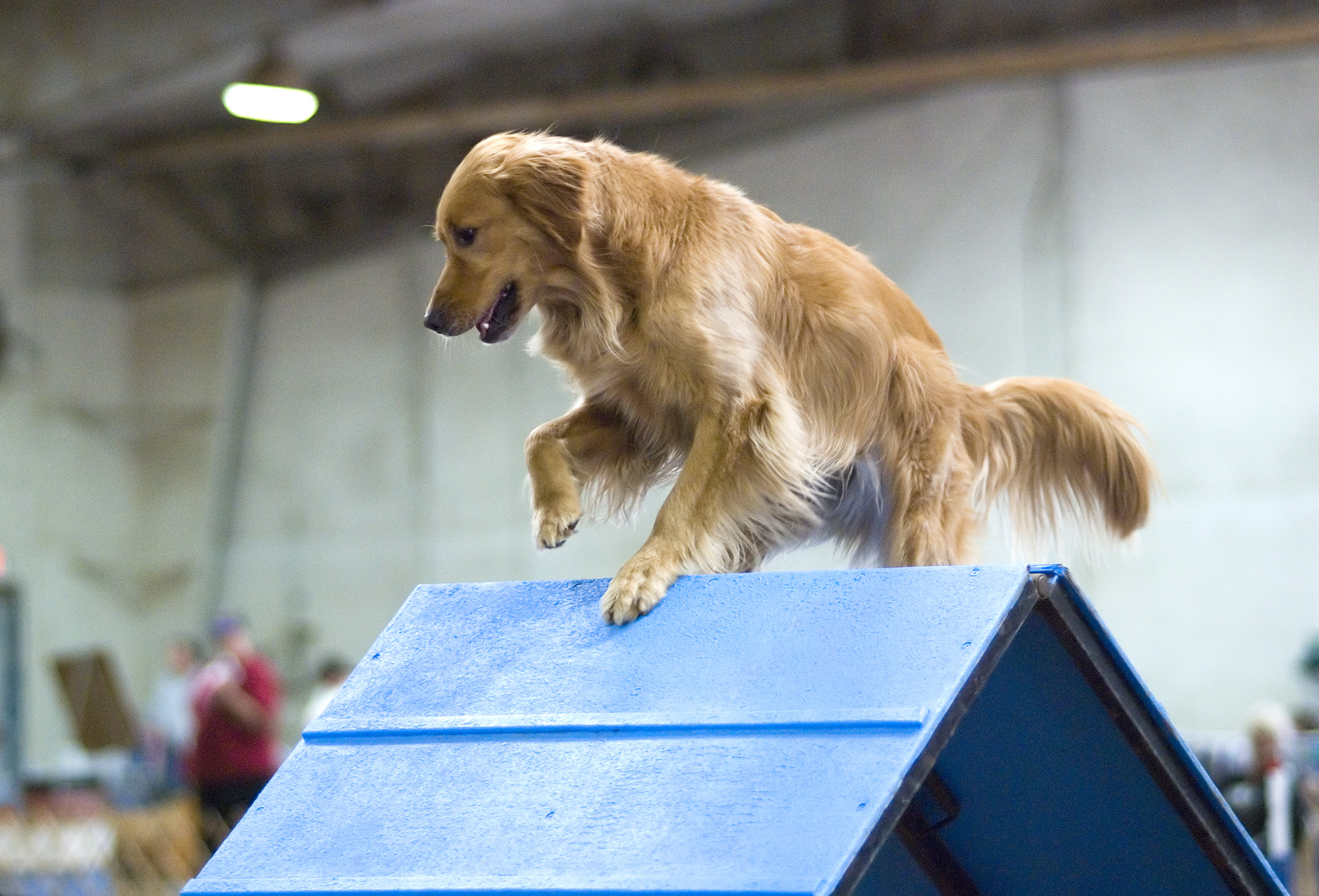 A Golden Retriever during an agility competition.